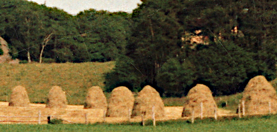 Drying hay on ryttarehässjor, in western Sweden (Lindome, south of Göteborg), mid-1987.